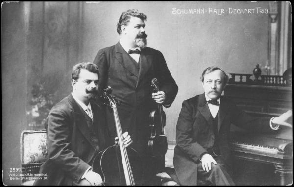 The German piano trio: cellist Hugo Dechert (1860—1923), violinist Carl Halir (1859—1909) and pianist Georg Schumann (1866—1952)